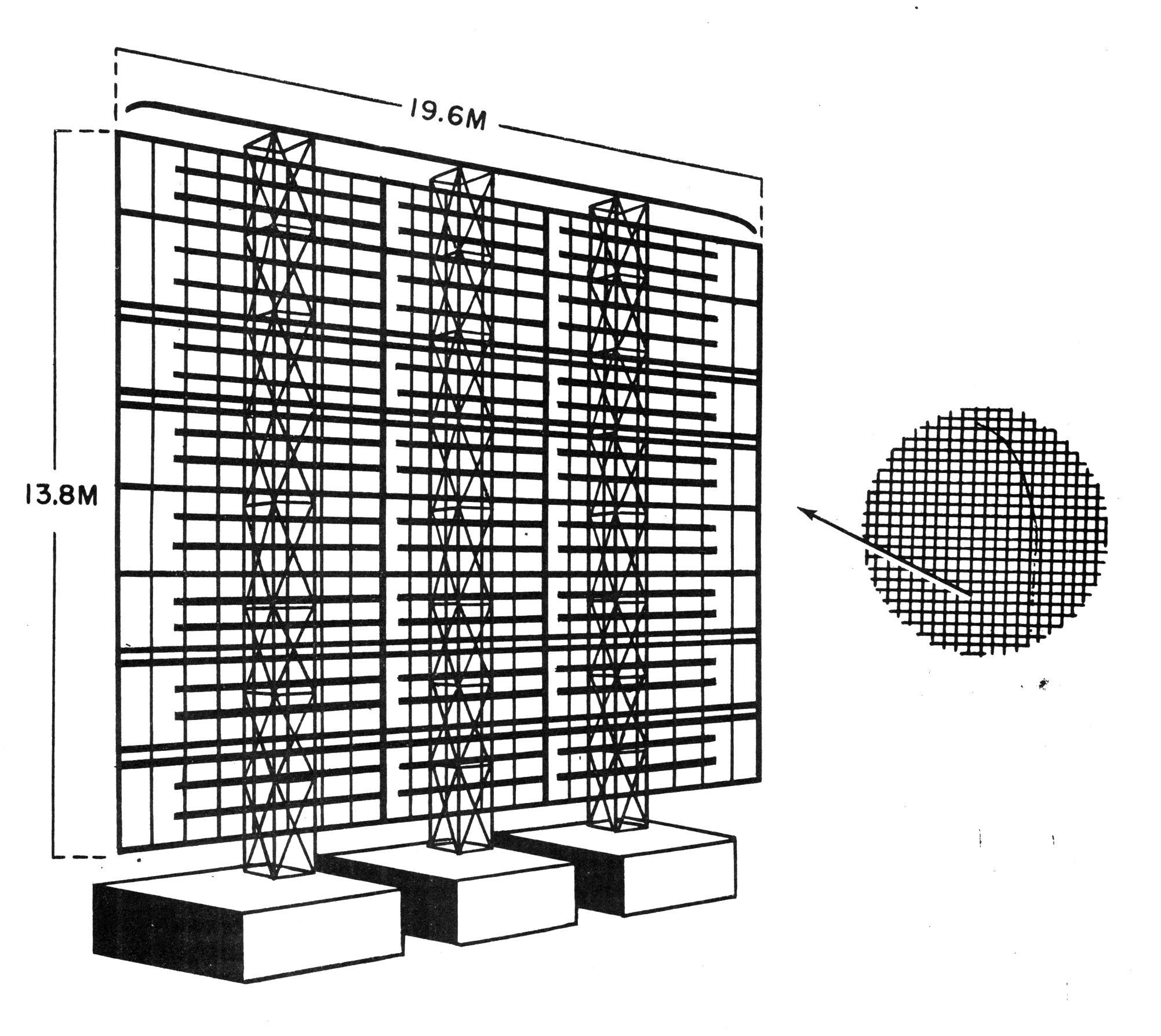 An illustration of a German World War II Mammut "Small hoarding" Radar from TM E 11-219 "Directory of German Radar Equipment".